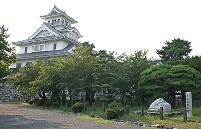 Nagahama Castle, Shiga, Japan. Photo by Philbert Ono.